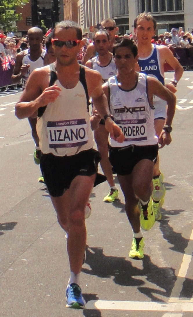 Costa Rican runner César Lizano and Mexican runner Carlos Cordero during the marathon at the 2012 Summer Olympics in London